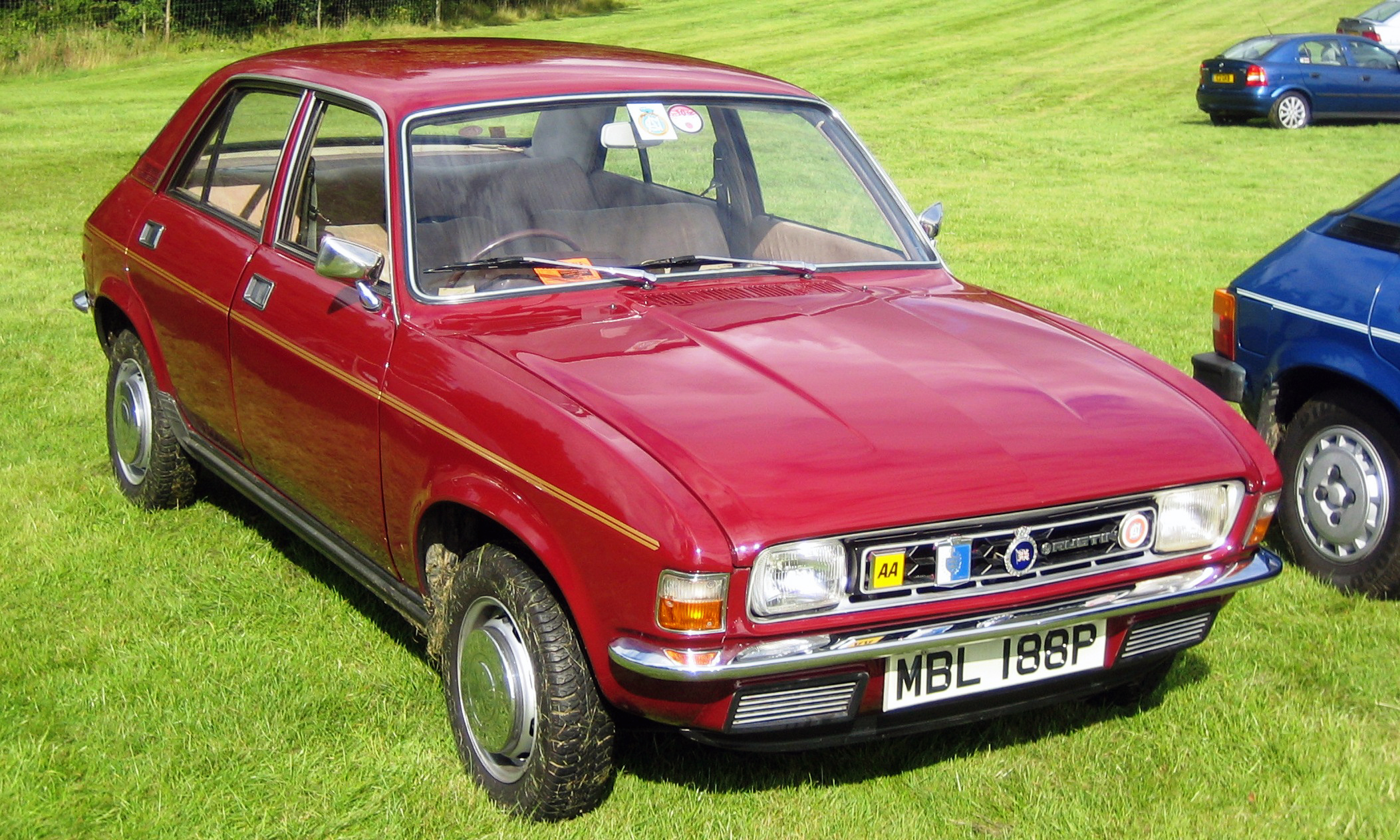 Austin Allegro 1500 (earlyish, albeit with round steering wheel) at Classic Car Show in Hertfordshire